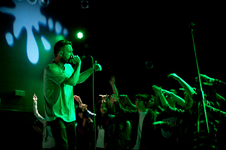 Polish rapper Małpa